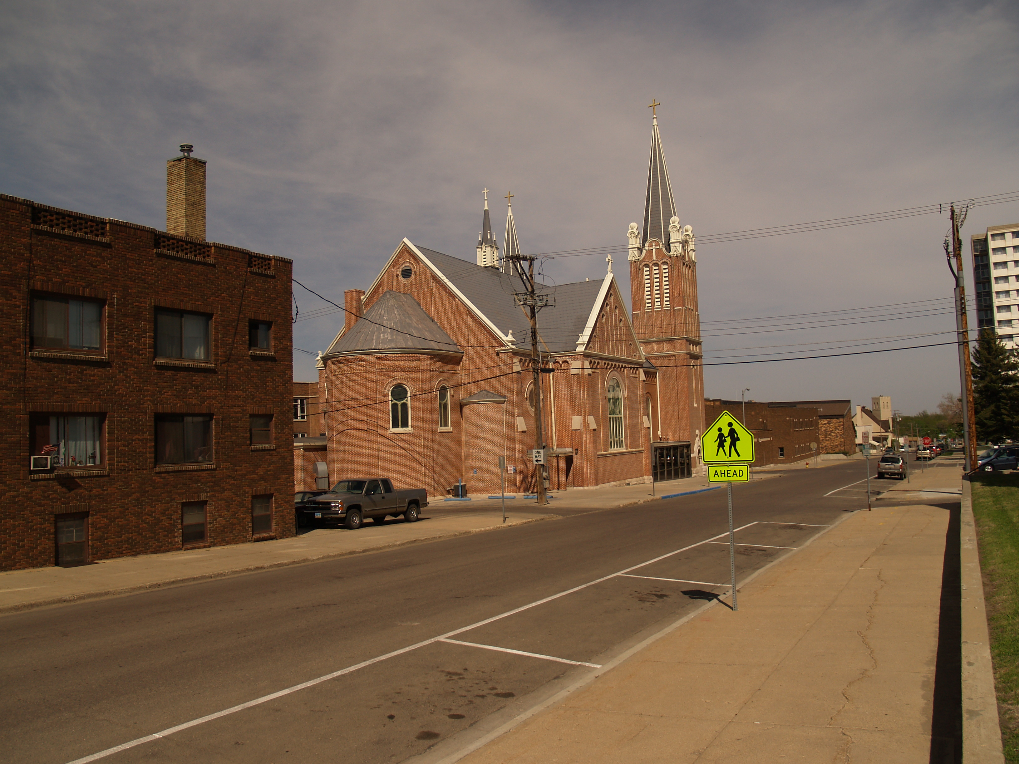 St. Leo's, a church that is a contributing property of the NRHP-listed Minot Commercial Historic District in Minot, North Dakota.